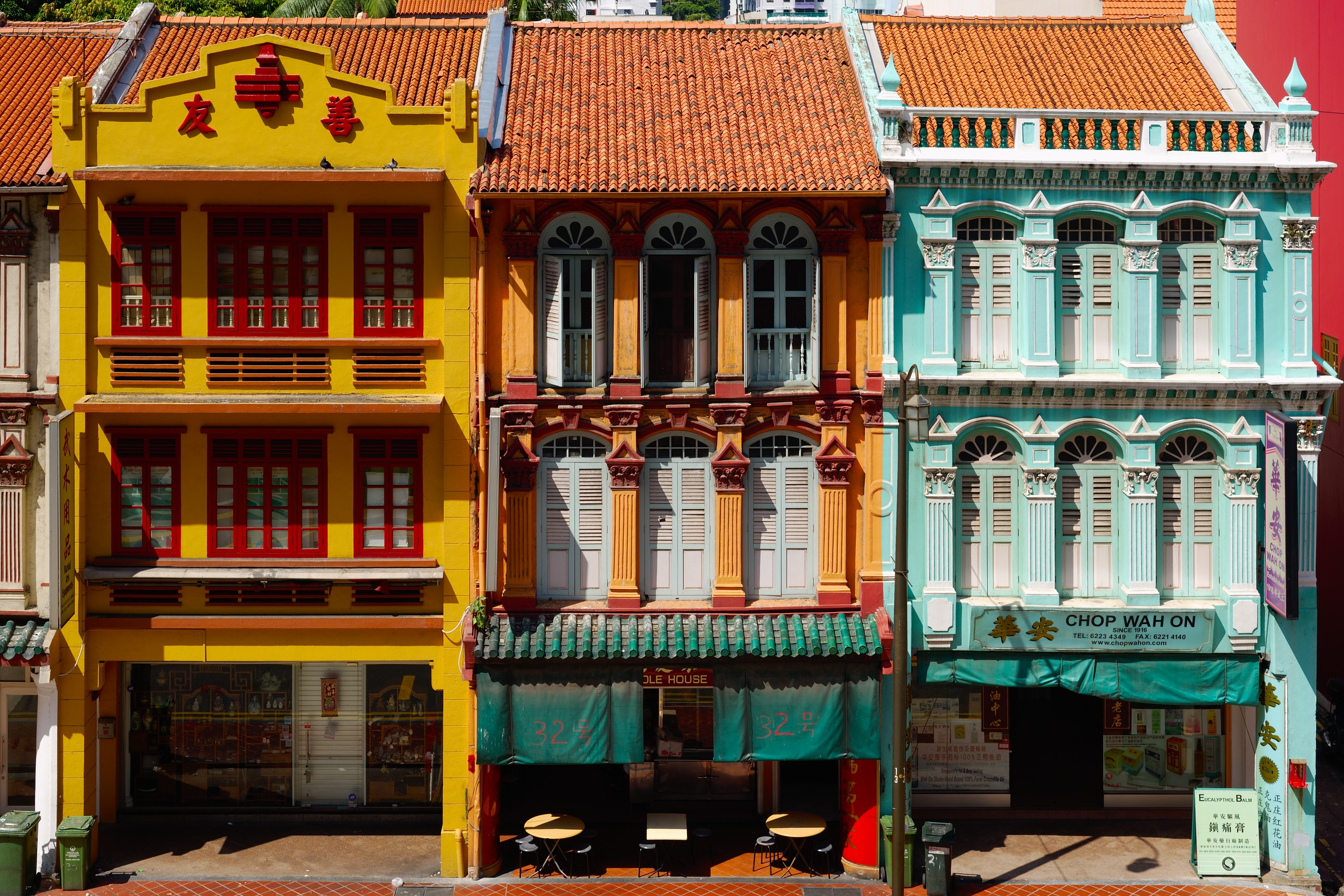 Traditional shophouses in Upper Cross Street, Chinatown, Singapore